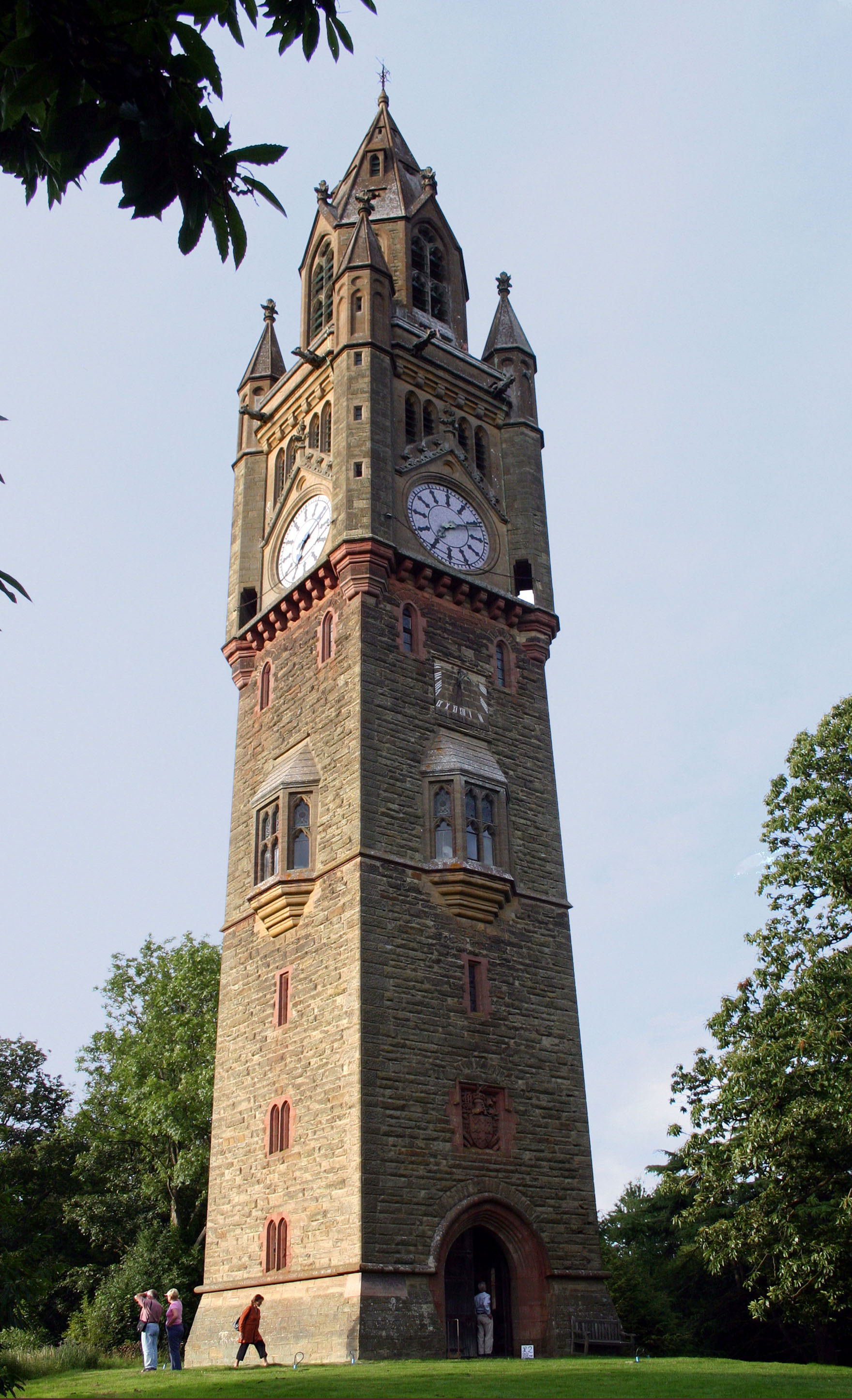 Abberley Clock Tower, built 1883-85.